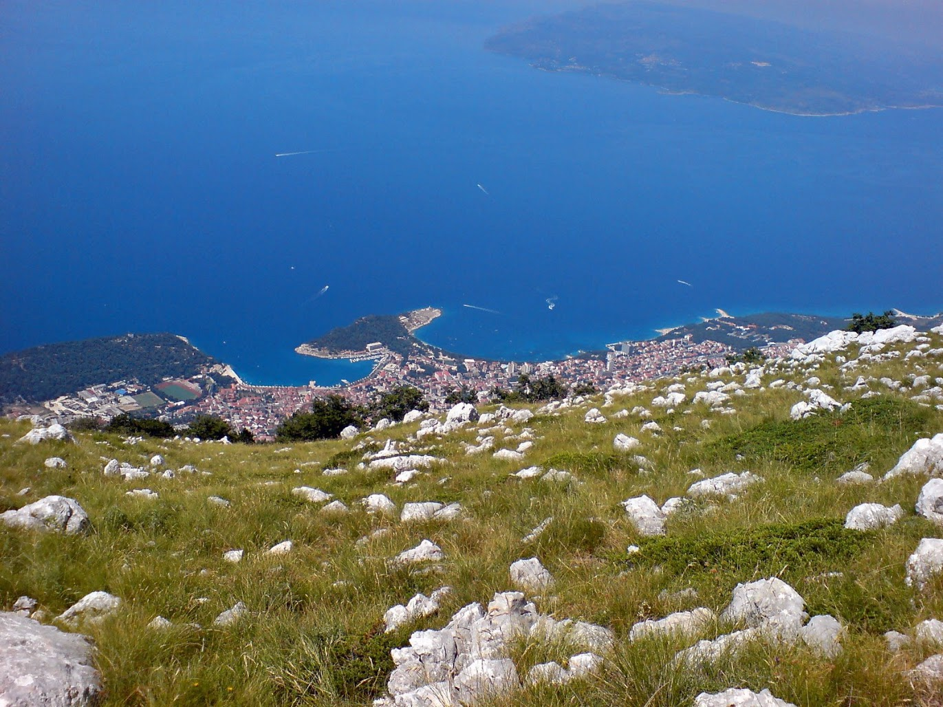 View from Biokovo